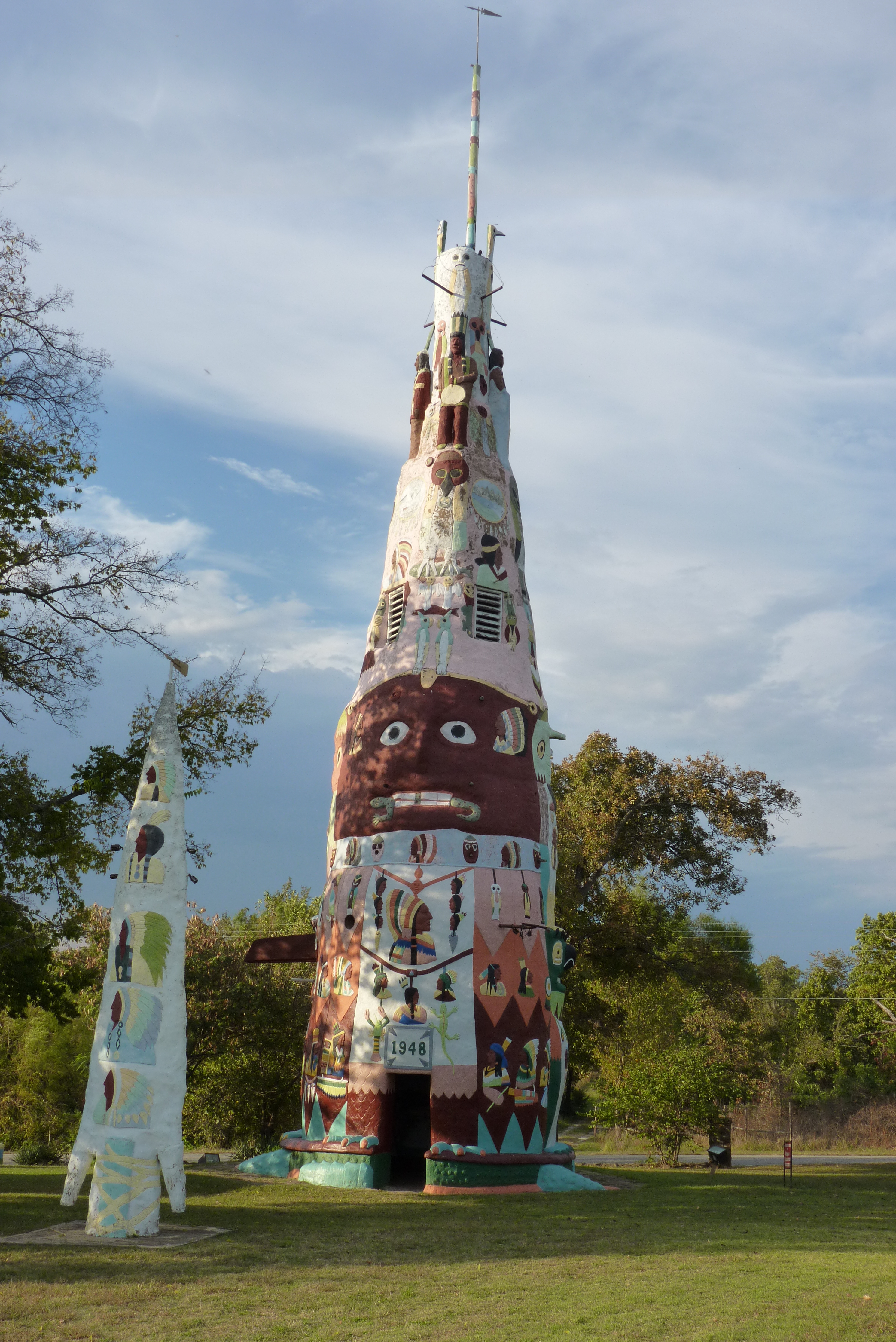 The world's largest concrete totem pole, among the many fixtures at Ed Galloway's Totem Pole Park.